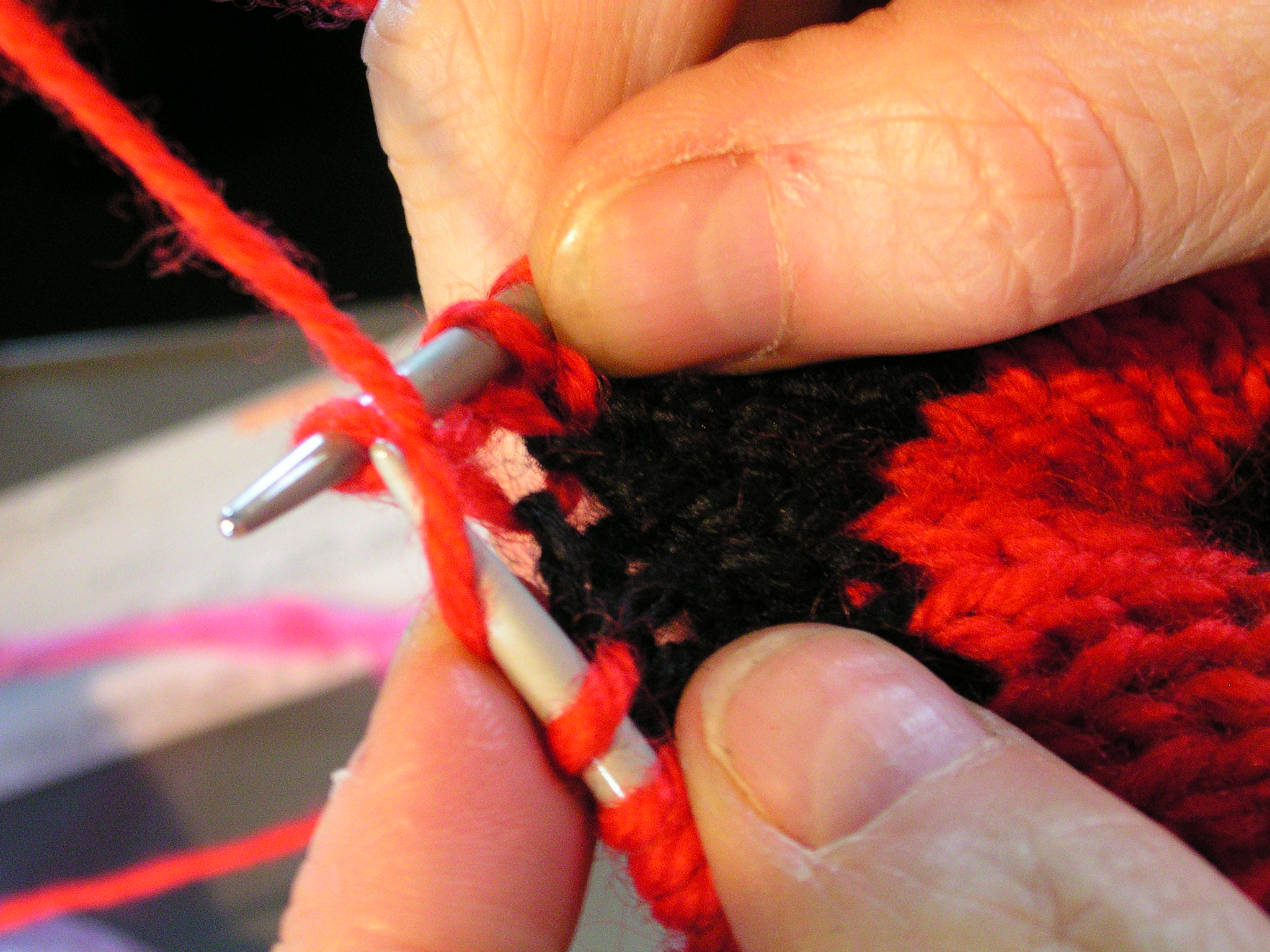 close-up on knitting.